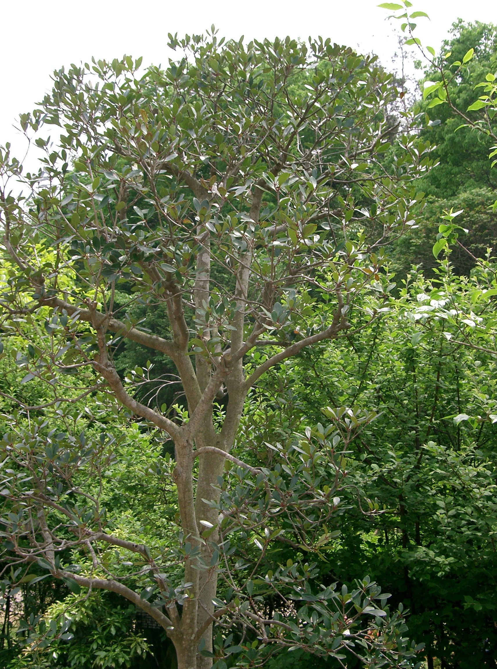 Ternstroemia gymnanthera